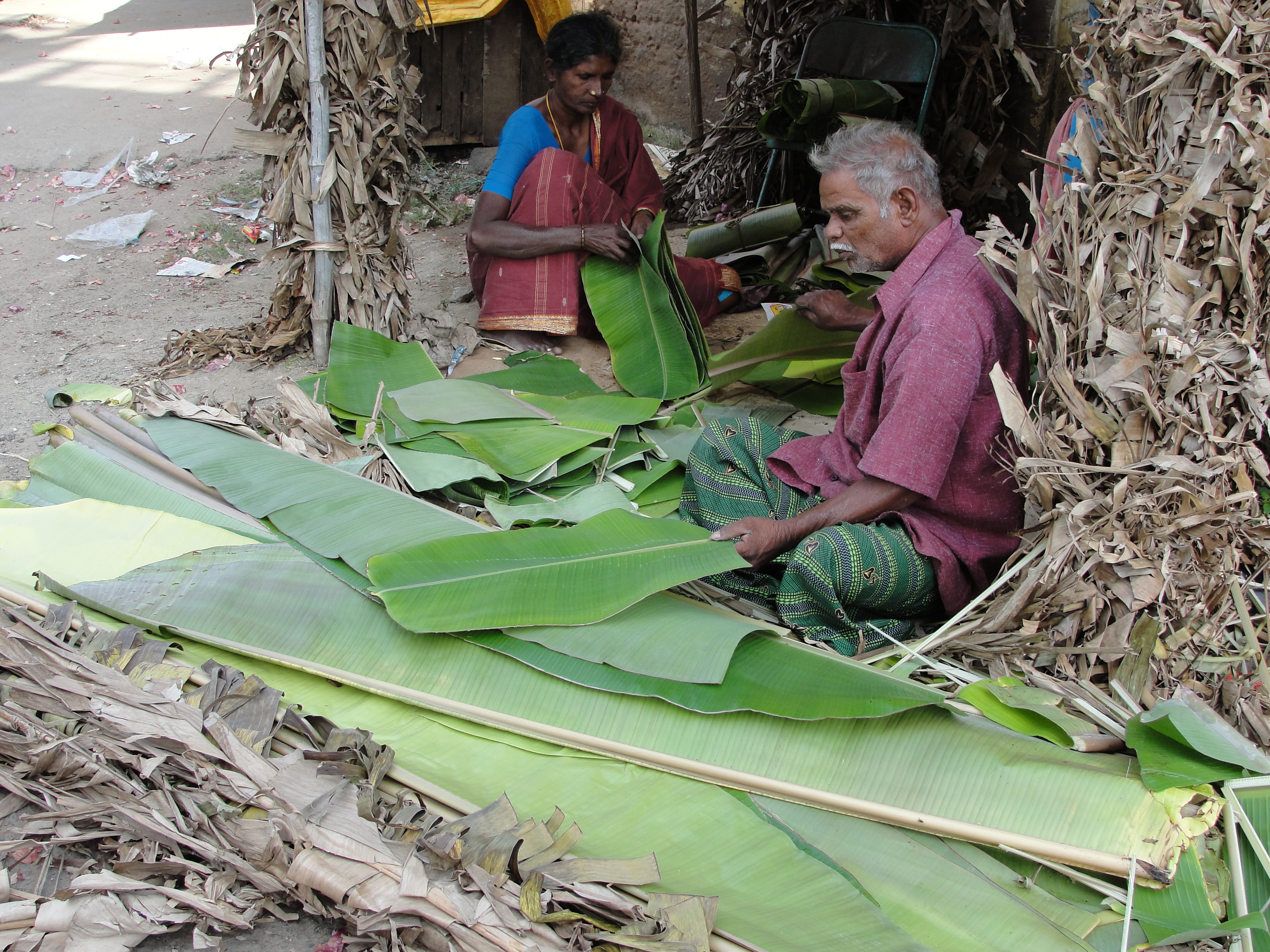 A Banana leaf stall